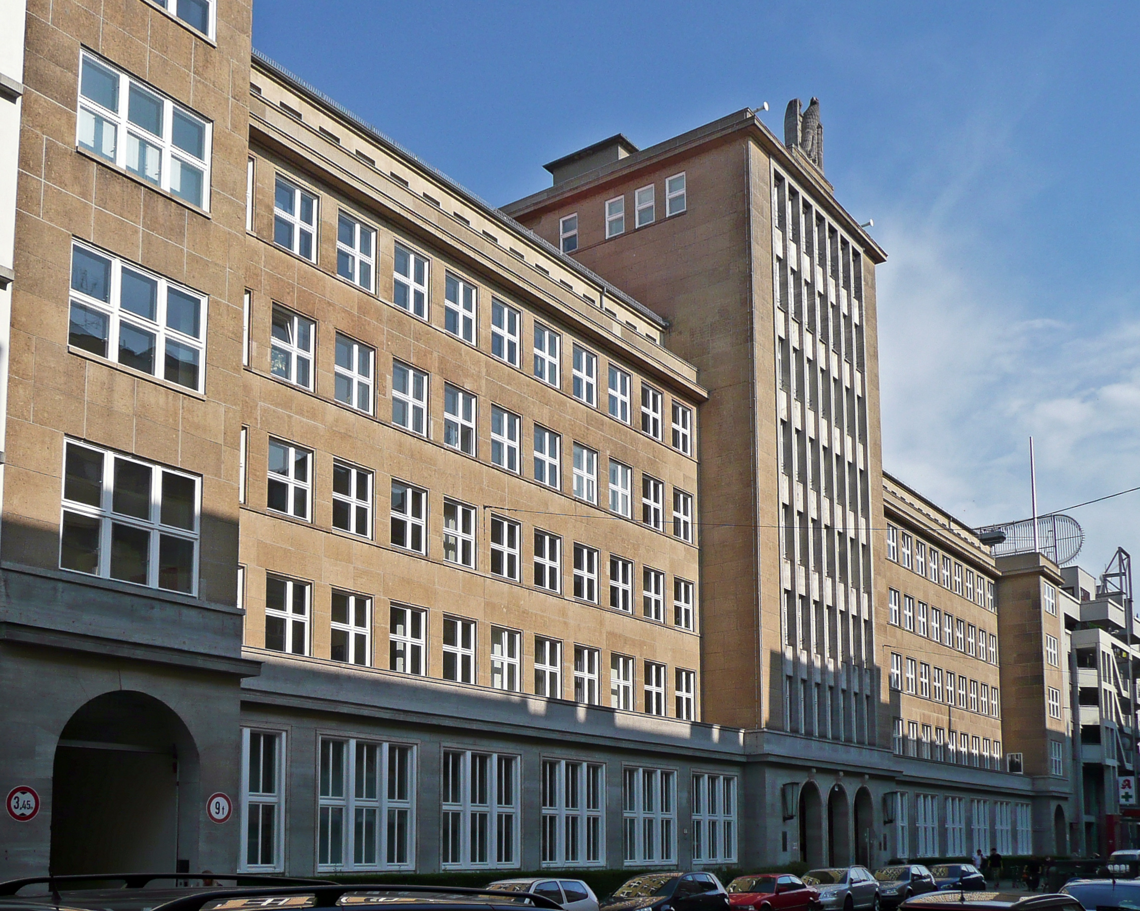 Regional Directorate of the Federal Labour Office in Berlin, Germany